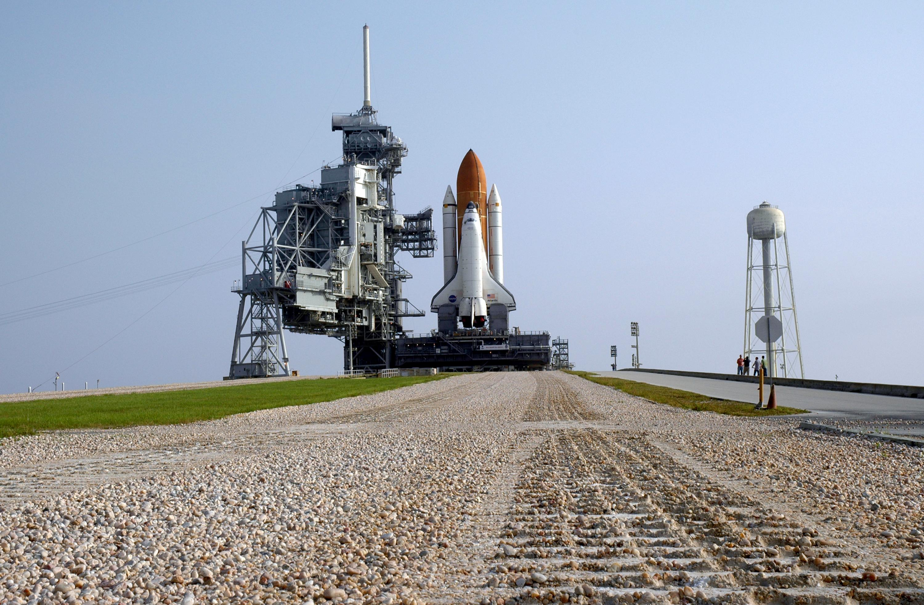 The tracks of the crawler-transporter are visible on the crawlerway (foreground) leading to Launch Pad 39B after the 4-mile journey of Space Shuttle Atlantis, which sits on the pad. At right is the 290-foot high, 300,000- gallon water tank that aids in sound suppression during launch. The water releases just prior to the ignition of the shuttle engines and flows through 7-foot-diameter pipes for about 20 seconds, pouring into 16 nozzles atop the flame deflectors and from outlets in the main engines exhaust hole in the mobile launcher platform. The slow speed of the crawler results in a 6-hour trek to the pad approximately 4 miles away.